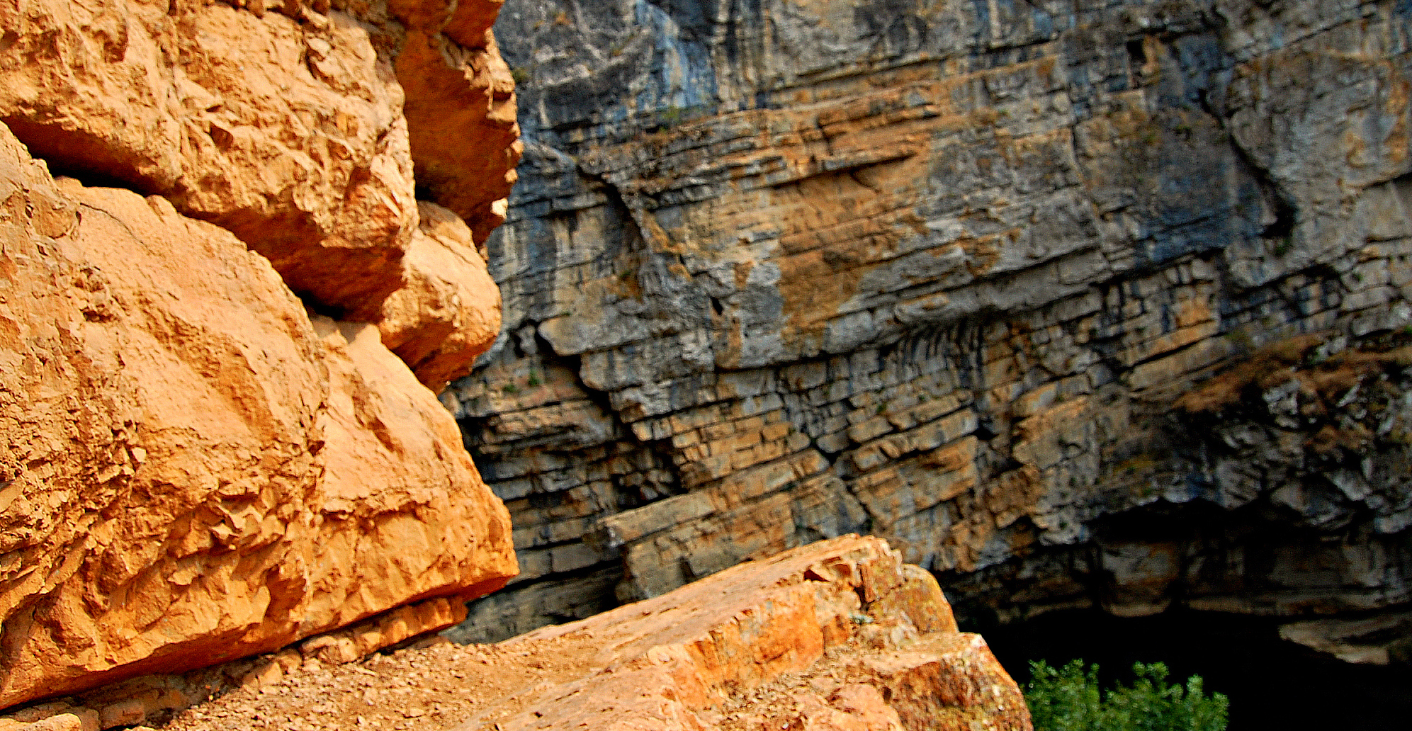 Proud of Mirusha canyon